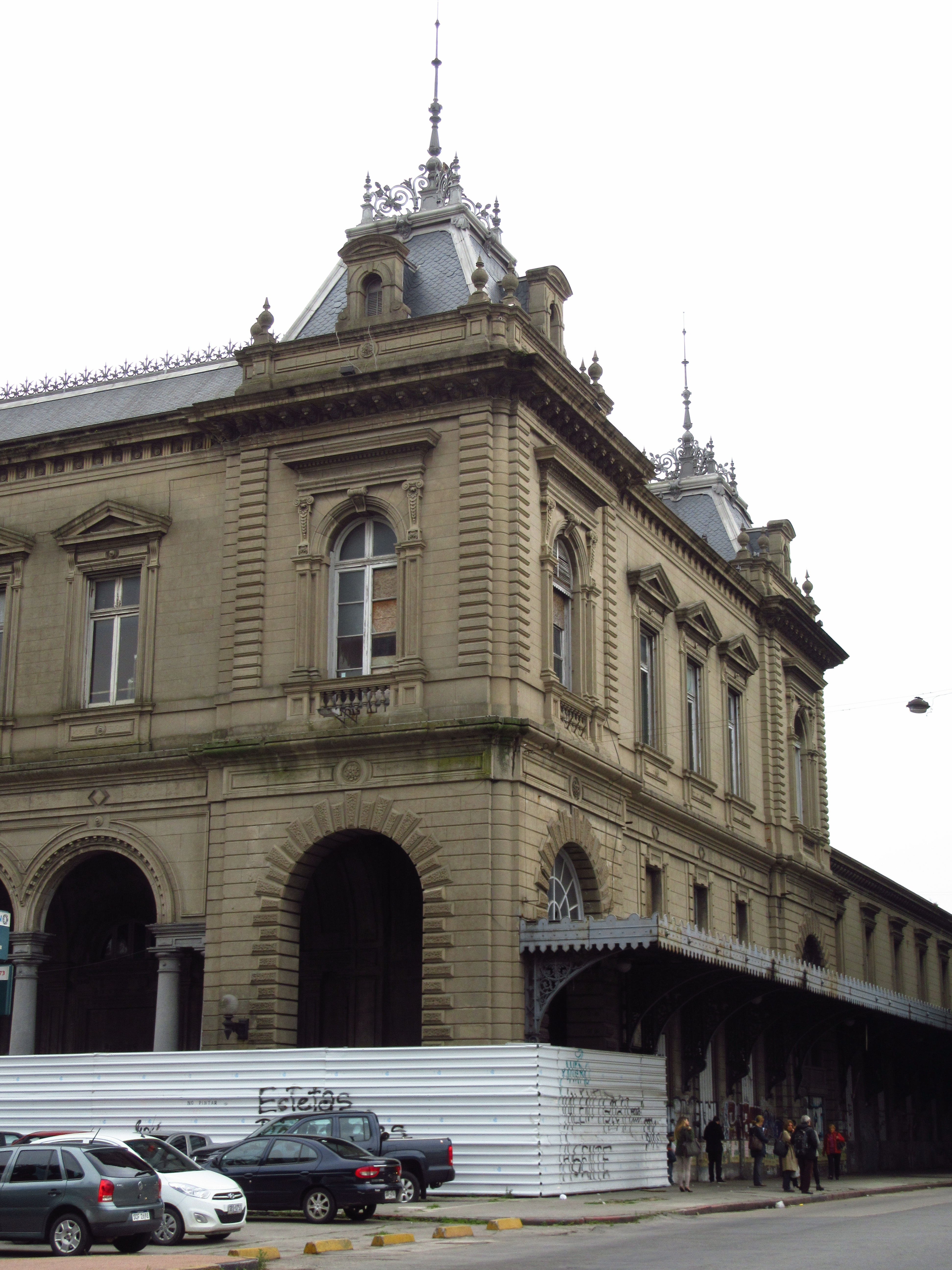 Montevideo